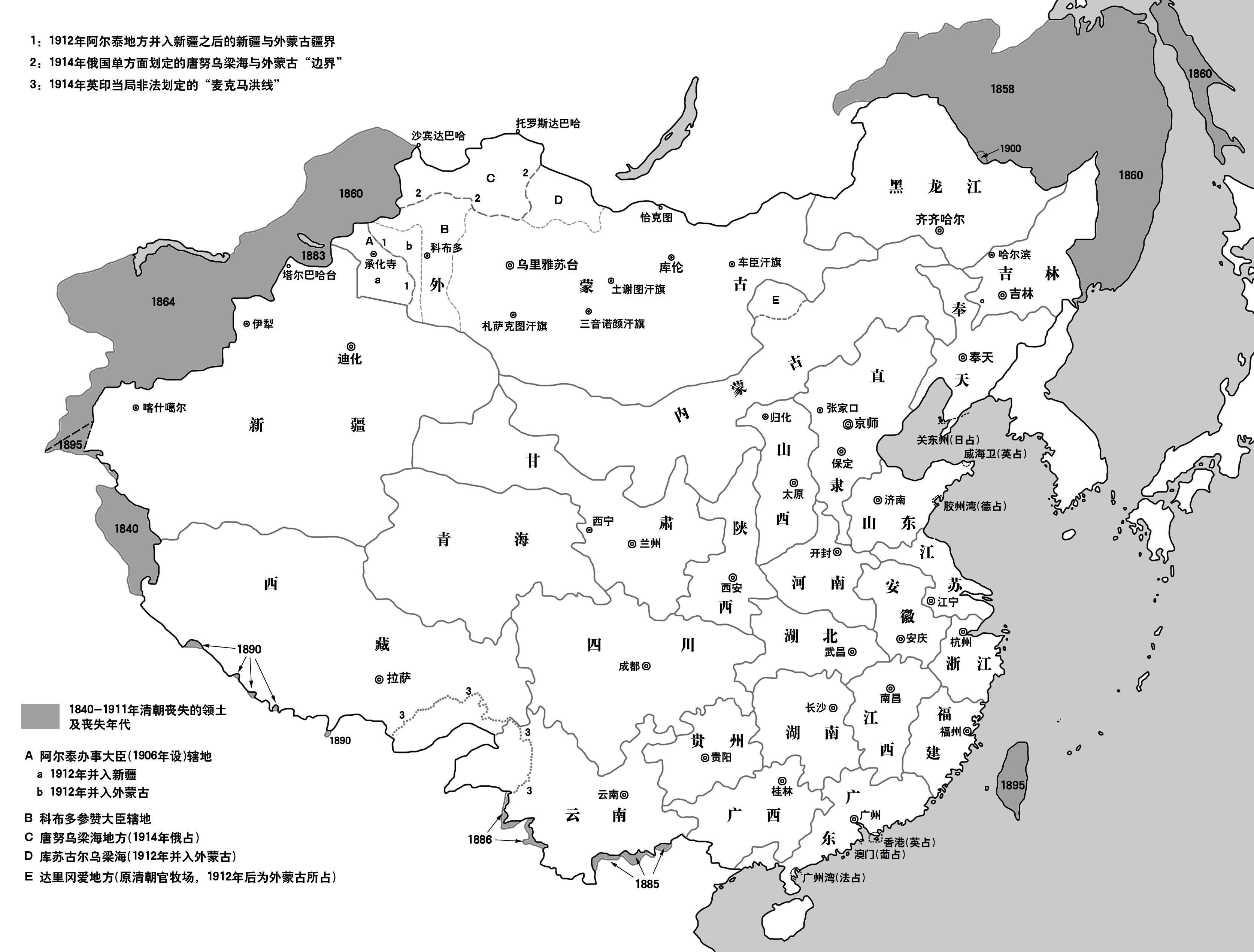 map of Qing Dynasty, as of 1911